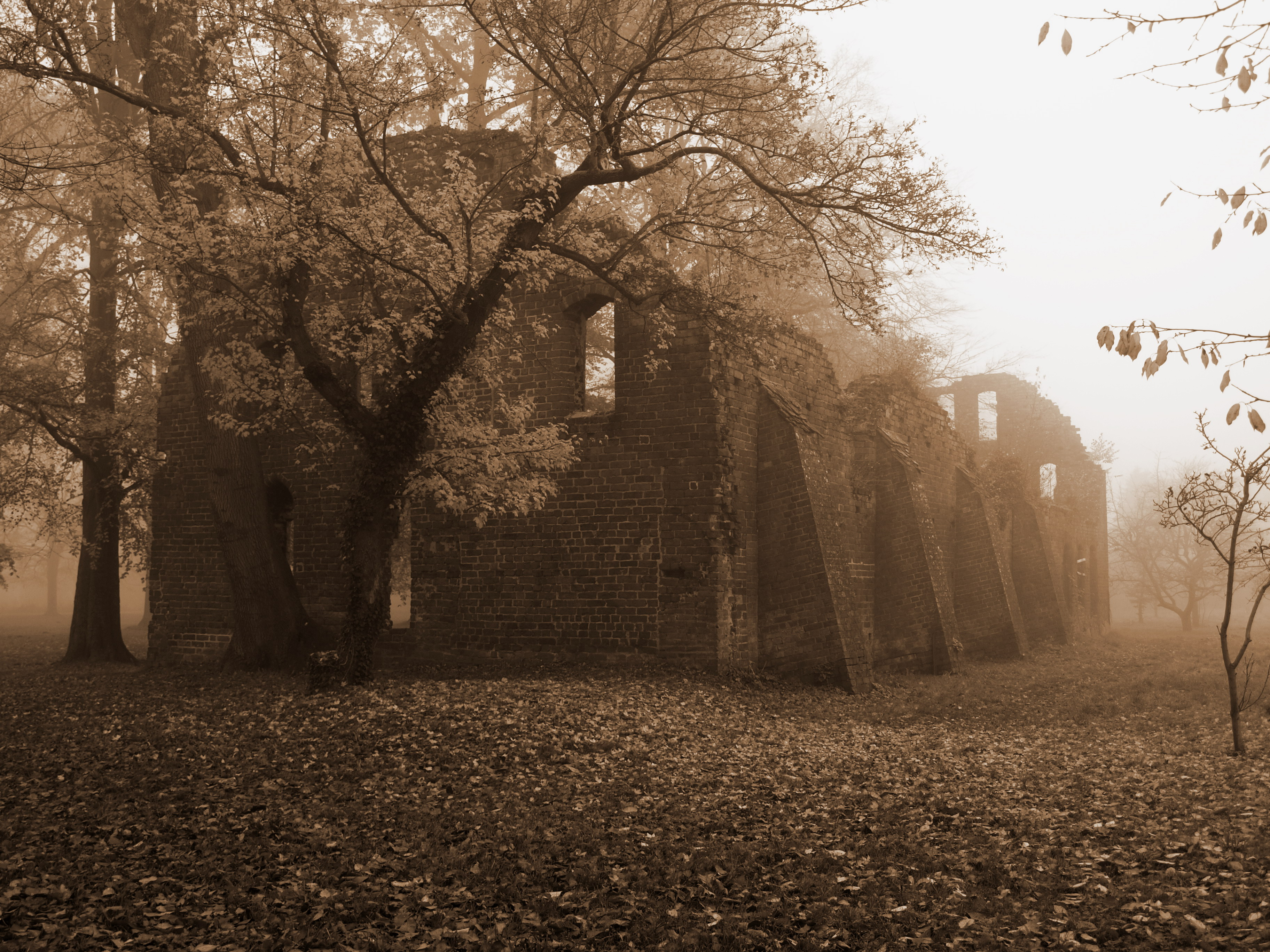 Doberan_Abbey